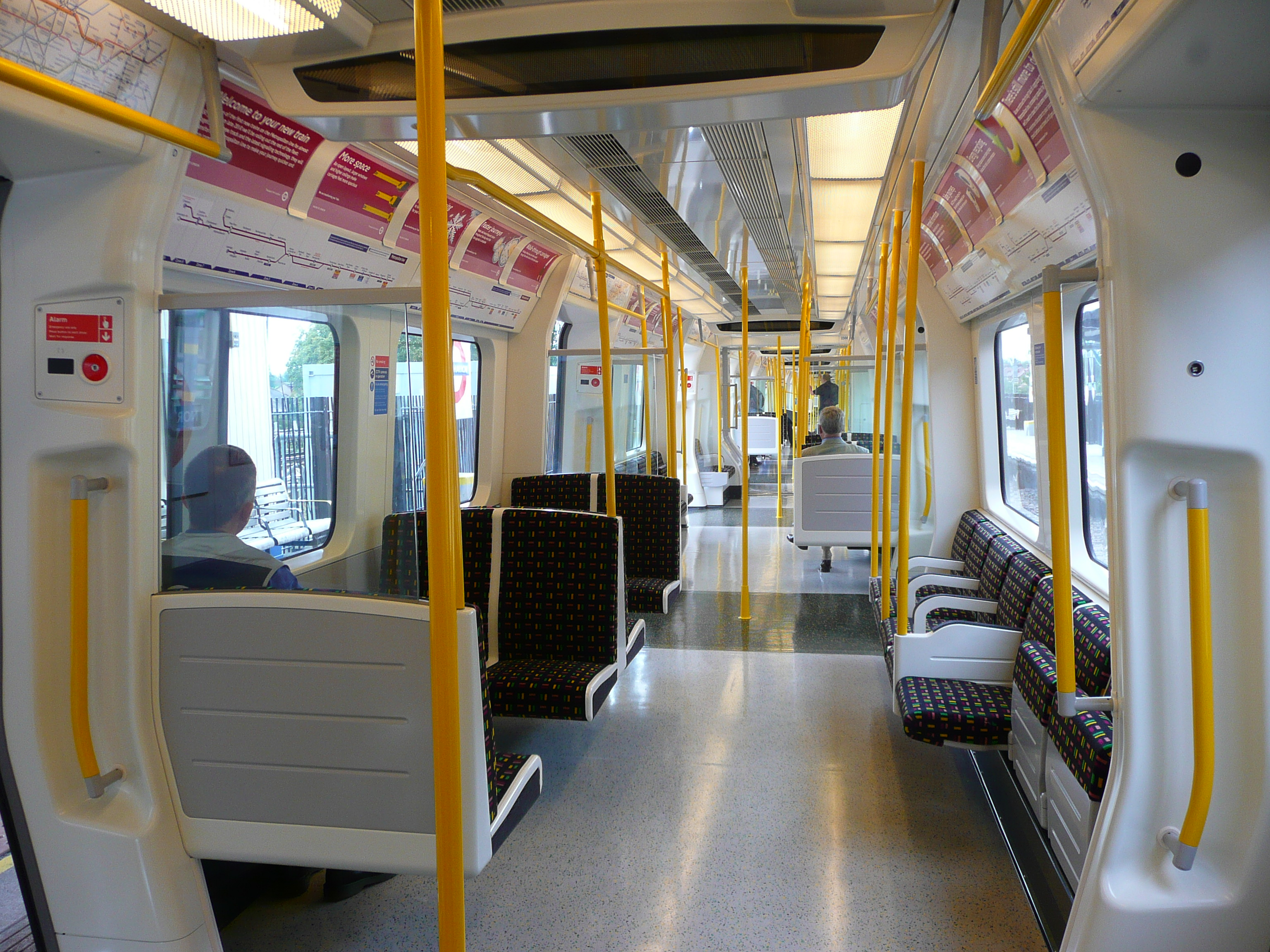 S stock interior - S8 variant with some transverse seating, for services on the Metropolitan Main Line, as originally built.